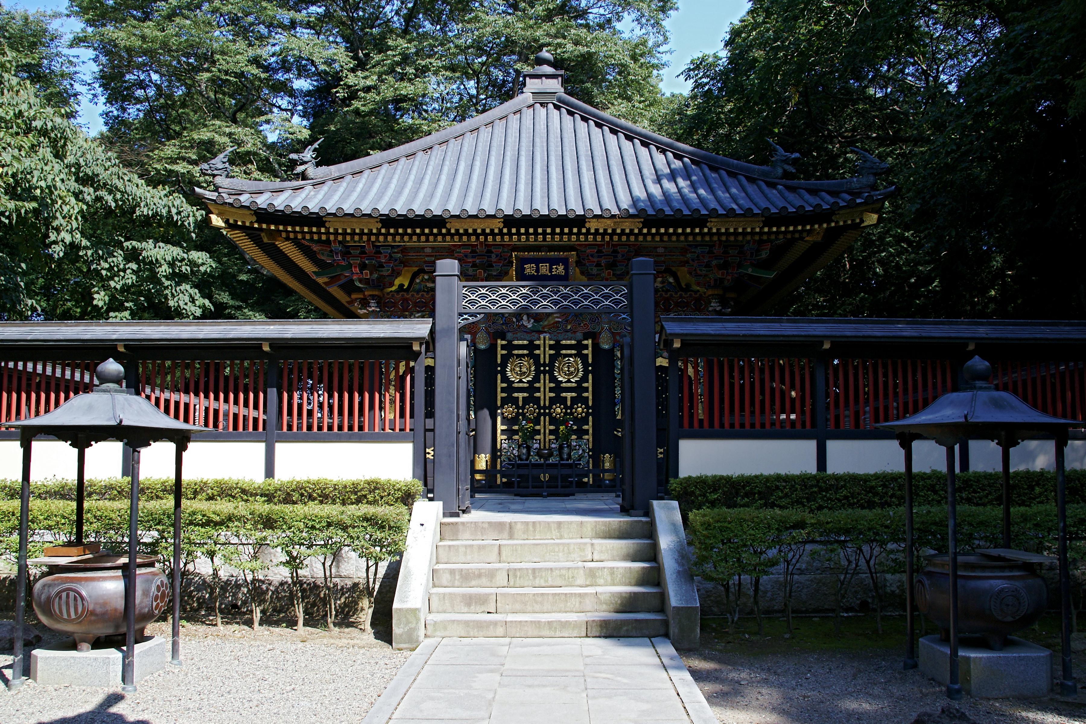 Zuiho-den in Sendai, Miyagi prefecture, Japan